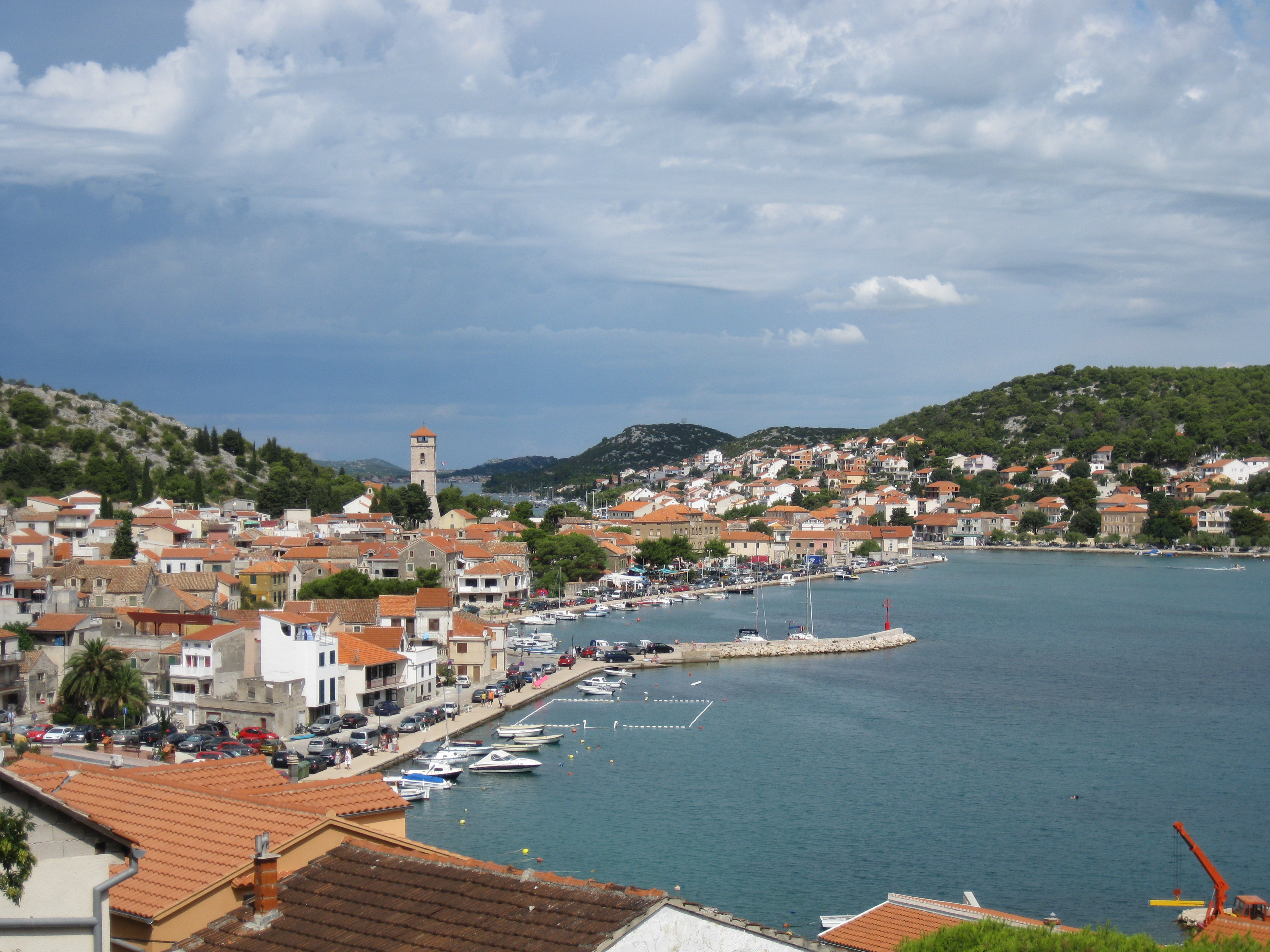 Images from Tisno, city in Croatia